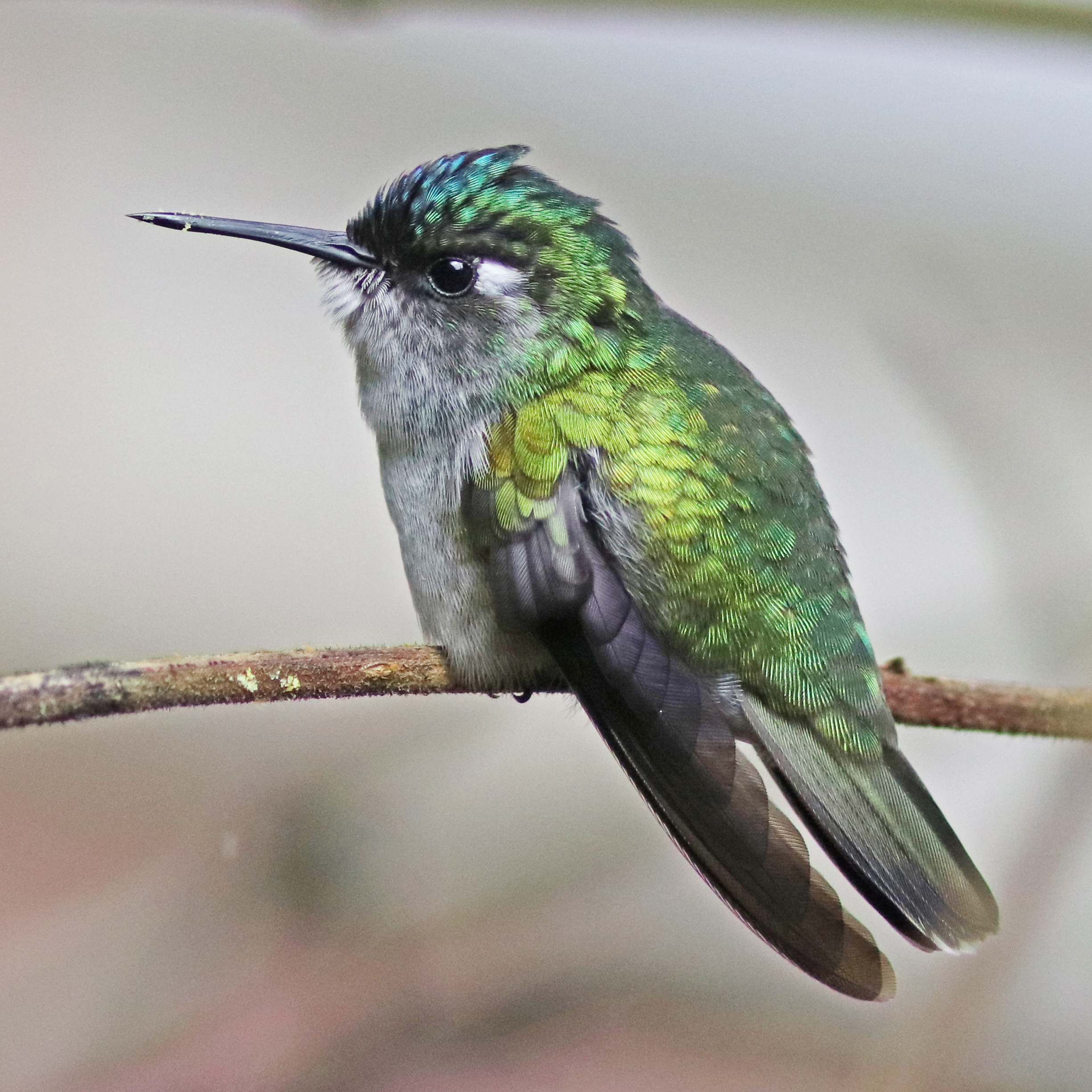 female Violet-headed Hummingbird resting on a branch in eastern Ecuador